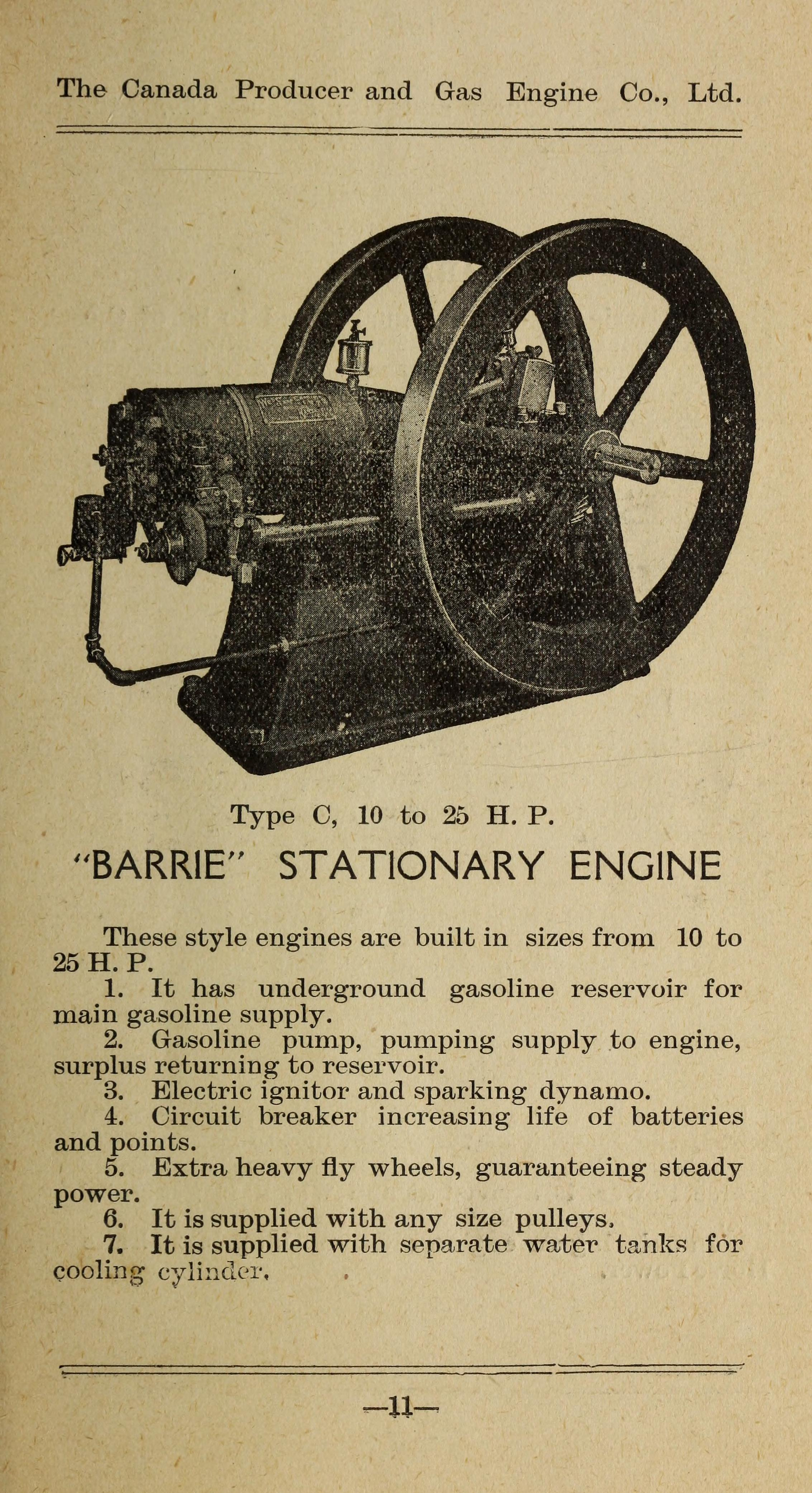 Title: The Barrie gasoline engines Year: 1910 (1910s) Authors: Canada Producer and Gas Engine Co. Ltd., Barrie, Ont Subjects: Internal combustion engines Publisher: Barrie, Gazette Print (Barrie) Text Appearing Before Image: The Canada Producer and Gas Engine Co., Ltd. Text Appearing After Image: Type C, 10 to 25 H. P. BARR1E STATIONARY ENGINE These style engines are built in sizes from 10 to25 H. P. 1. It has underground gasoline reservoir formain gasoline supply. 2. Gasoline pump, pumping supply to engine,surplus returning to reservoir. 3. Electric ignitor and sparking dynamo. 4. Circuit breaker increasing life of batteriesand points. 5. Extra heavy fly wheels, guaranteeing steadypower. 6. It is supplied with any size pulleys, 7. It is supplied with separate water tanks forcooling cylinder. -11— The Canada Producer and Gas Engine Co., Ltd. GUARANTEE All Barrie engines are guaranteed to be of thebest material and very best workmanship, and wehereby agree to replace any part found to be defect-ive, f. o. b. our works, without cost, for a period ofone year. We guarantee the speed to be steady and uni-form. We guarantee that changes in temperaturewill not effect engines running. We guarantee interchangeability of parts. We guarantee that the Barrie engine can beoperated withou